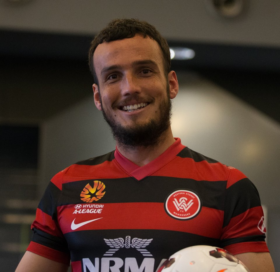 This picture is of Mark Bridge, football player, wearing the shirt of the Western Sydney Wanderers Football Club.